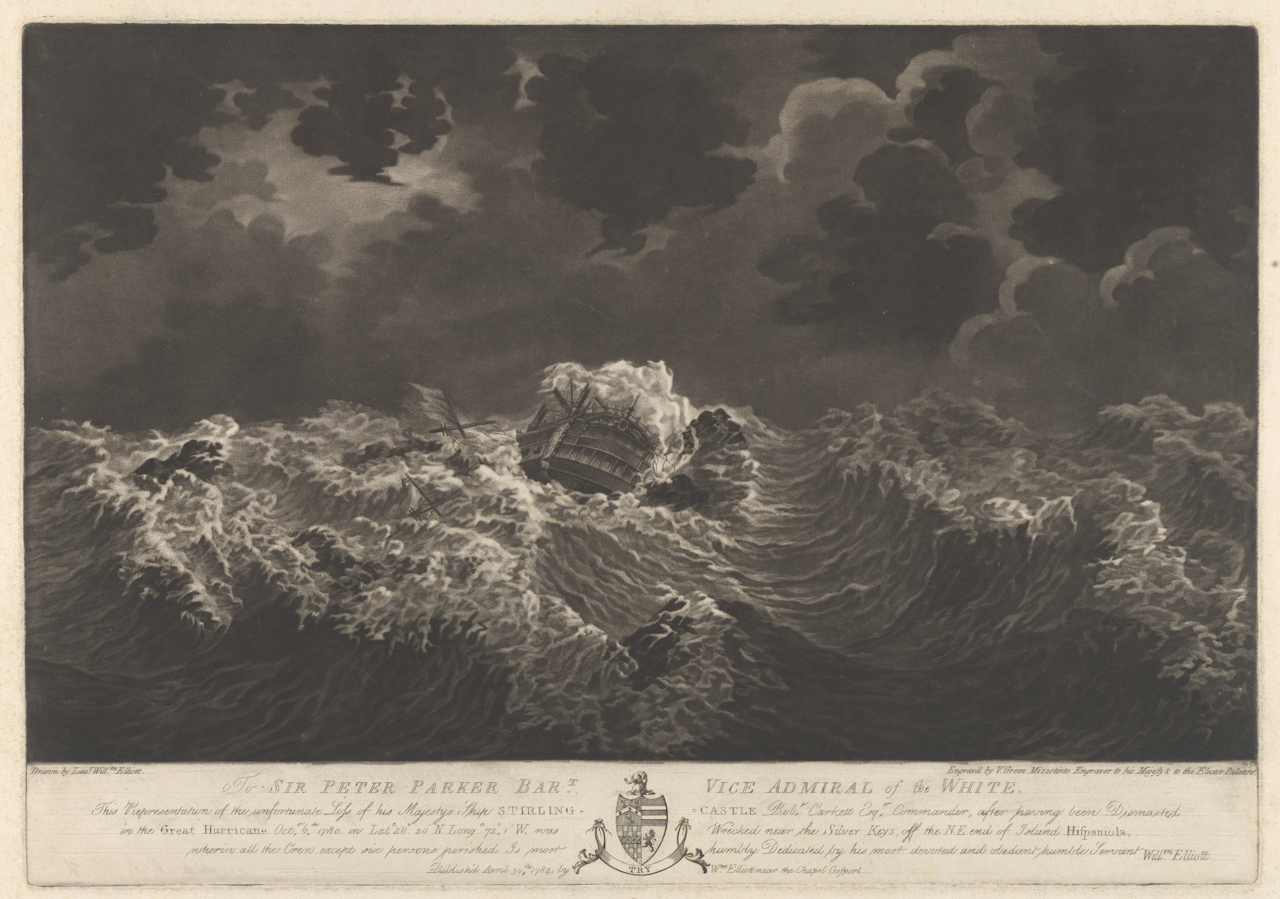 Representation of the unfortunate Loss of His Majesty's Ship Stirling Castle... after having been dismasted in the Great Hurricane Octr 6th 1780.... was wrecked near the Silver Keys, off the NE end of Island Hispaniola Print